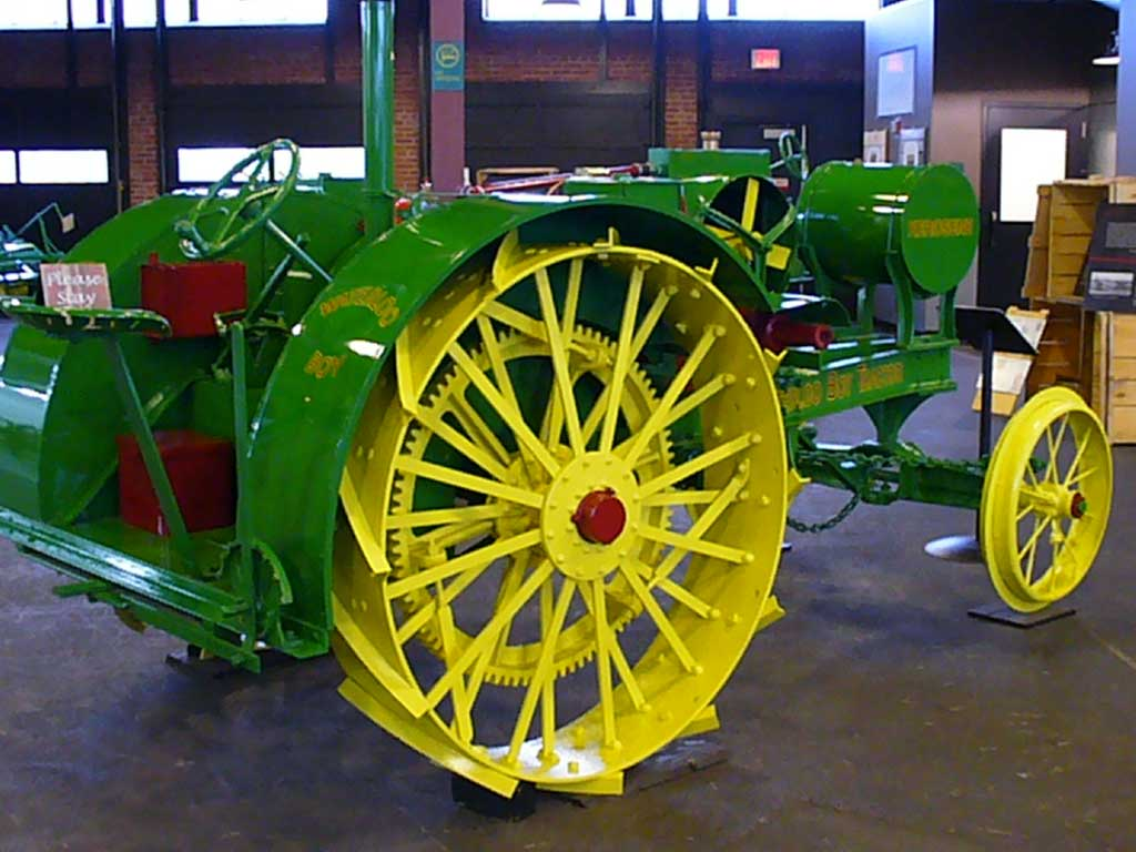 John Deere Waterloo Boy - Submitted by and originally used on Our mission is to preserve the past so the future can enjoy.